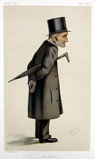 Caricature of Henry Parry Liddon (1829 - 1890). Caption read "High Church".